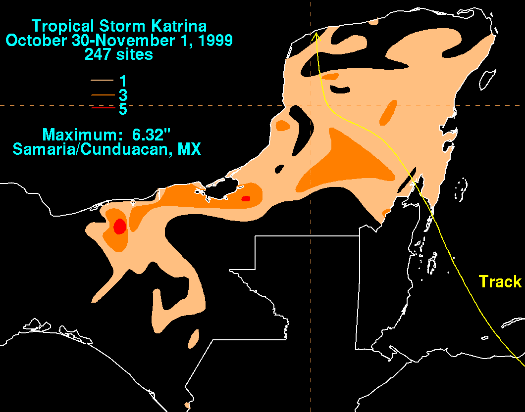 Storm total rainfall map of Tropical Storm Katrina during October and November 1999.